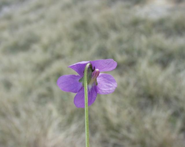 (en) Viola rupestris, a photography originating of the internet site The accord of the autor, H. Brisse, is here. (fr) Viola rupestris, une photographie issue du site internet L'accord de l'auteur, H. Brisse, se situe ici.